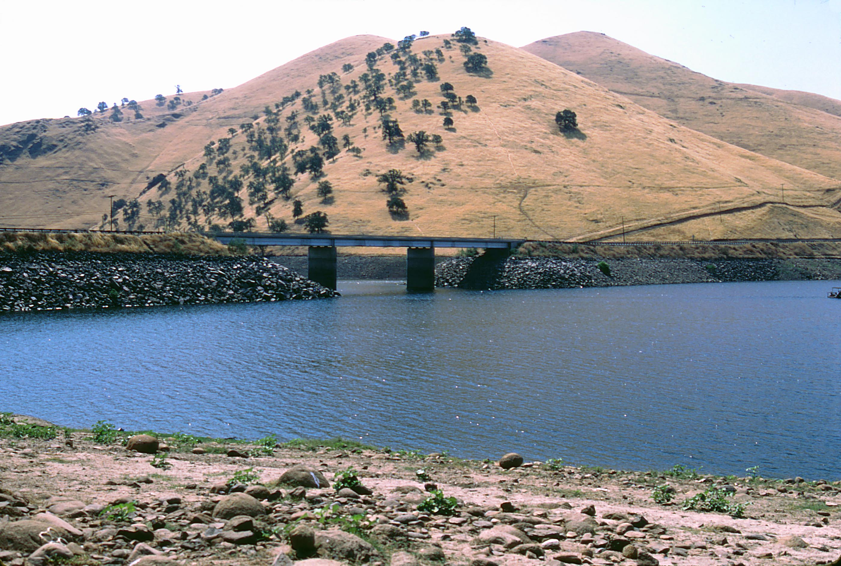 Looking southwest across Success Lake toward the Highway 190, located near Porterville, Calif., Nov. 8, 2004. The U.S. Army Corps of Engineers Sacramento District completed construction of Success Dam in 1961 and the reservoir provides flood risk management, water storage and recreational benefits to the local area. (U.S. Army photo by Michael J. Nevins/Released)